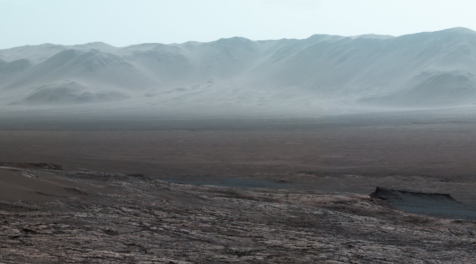 This image shows a large alluvial ban at the base of the rim of Gale crater, Mars, as photographed by NASA's Curiosity Mars rover. The image is cropped from the full panorama at